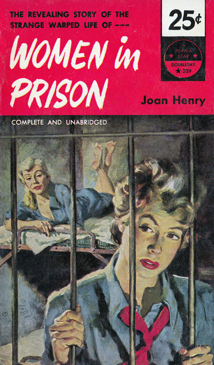 Cover of "The Lowest Sins" by Joan Henry. Perma Star Doubleday #239, 1953.